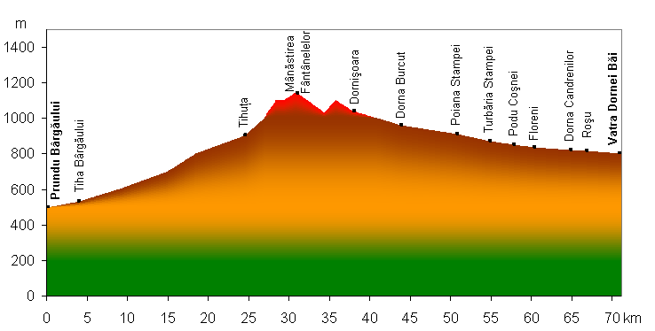 elevation profile of the railway track Prundu Bargaului-Vatra Dornei